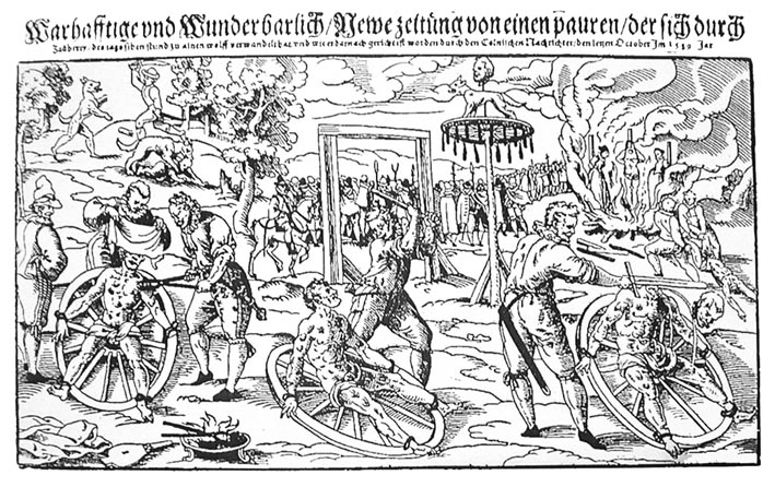 This woodcut shows the 'breaking wheel' as it was used in Germany in the Middle Ages. The exact date is unknown, as is the creator, but it depicts the execution of Peter Stumpf in Cologne in 1589. This form of punishment was most common during the middle ages and early modern age. Though in many regions of Germany, the breaking wheel was used even in the 19th century. The last known execution occurred in Prussia in 1841. The woodcut relates the crime and the punishment of Peter Stumpf and includes a depiction of the punishment of his daughter and mistress. Stumpf was accused of being a werewolf and in the top left hand corner of the woodcut we see a large wolf attacking a child. Above this scene a man with a sword is seen fighting off the wolf and in doing so, lops off the wolf’s left forepaw. In the centre left of the illustration we are shown the first punishment of Stumpf, namely the tearing of his flesh with red hot pincers while he is bound to a wheel. In the middle we see the executioner using the blunt side of an axe to break Stump’s arm and leg bones. On the righthand side of the illustration the executioner beheads Stump. In each of these three depictions we can see that Stump’s left hand is missing, presumably pointing to the fact that the werewolf had its left forepaw cut off. After his beheading, Stump’s body is dragged away to be burnt. In the top right hand corner of the wood cut we see the fire where Stumpf’s daughter and mistress, each tied to a stake, are burnt alive with Stumpf’s headless body tied to a stake between them. Also shown is a wheel, mounted on a pole, which carries Stumpf’s severed head together with a figure of a wolf. The picture was published in 'Het Tilburgs Tijdschrift voor Geschiedenis' (Tilburg History Magazine) in 2003.